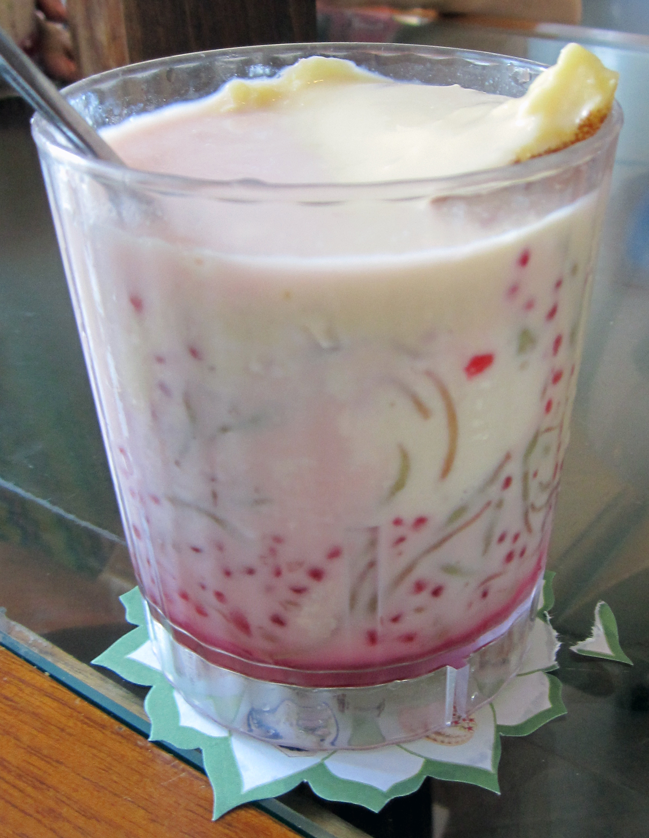 Yangon's Shwe Puzun confectionery's phaluda (falooda)